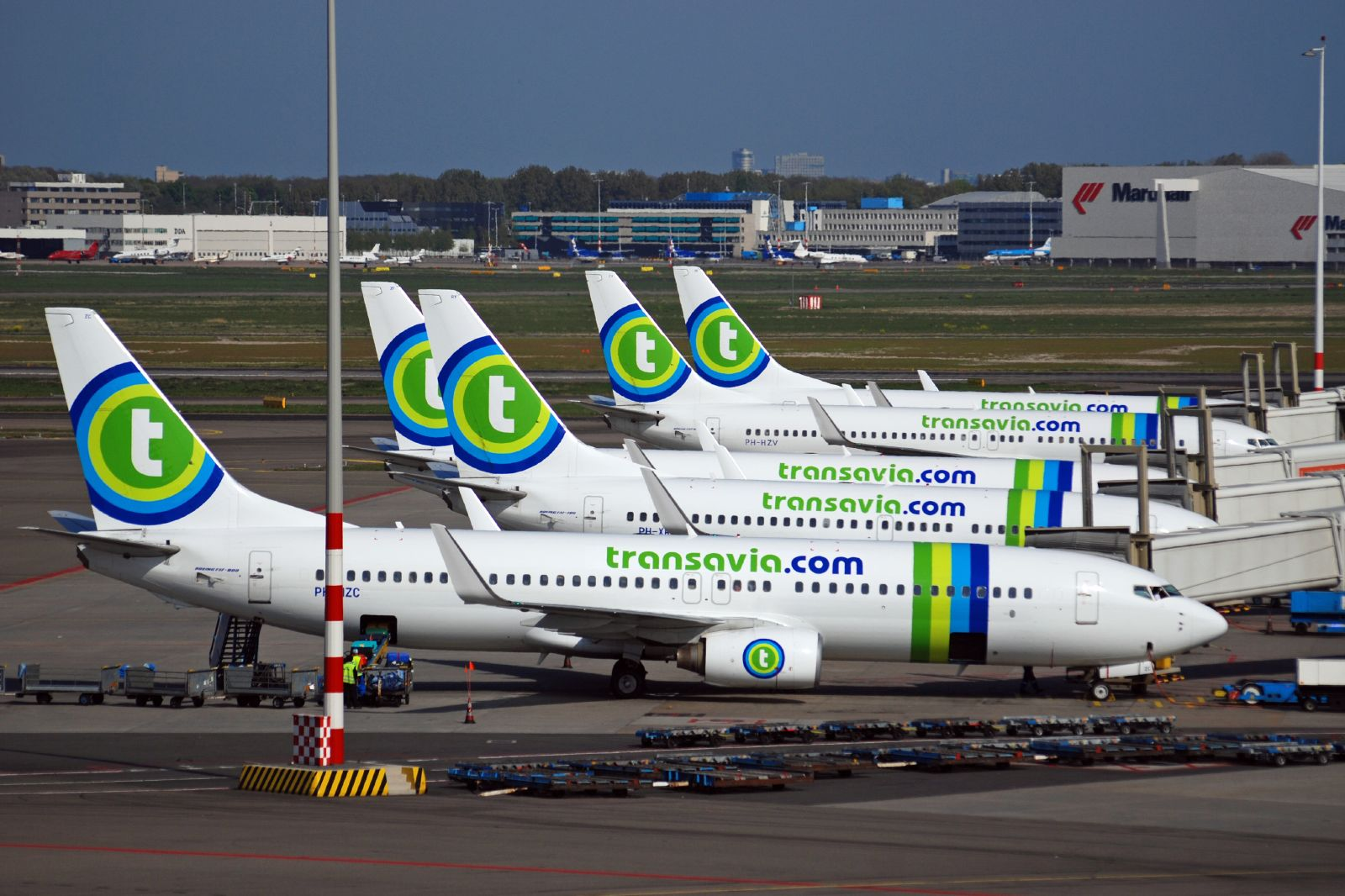 Transavia fleet at Schiphol airport Amsterdam